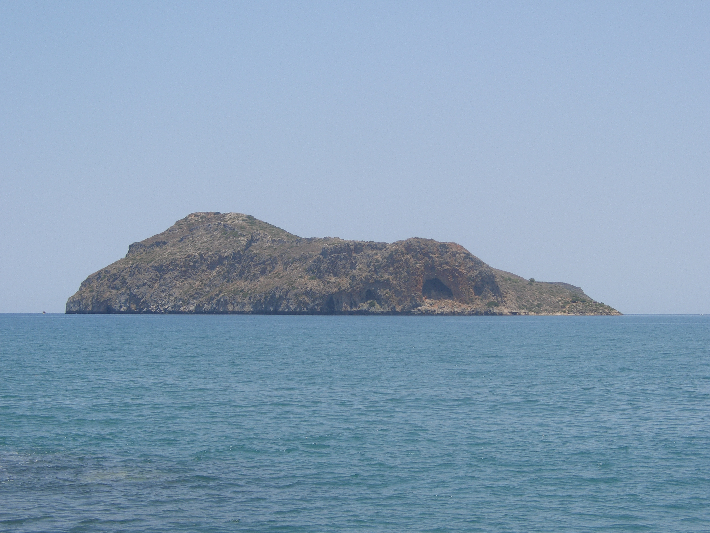 Theodorou Island/Agii Theodori Island/Kri-Kri Island, Prefecture Chania, Crete, Greece